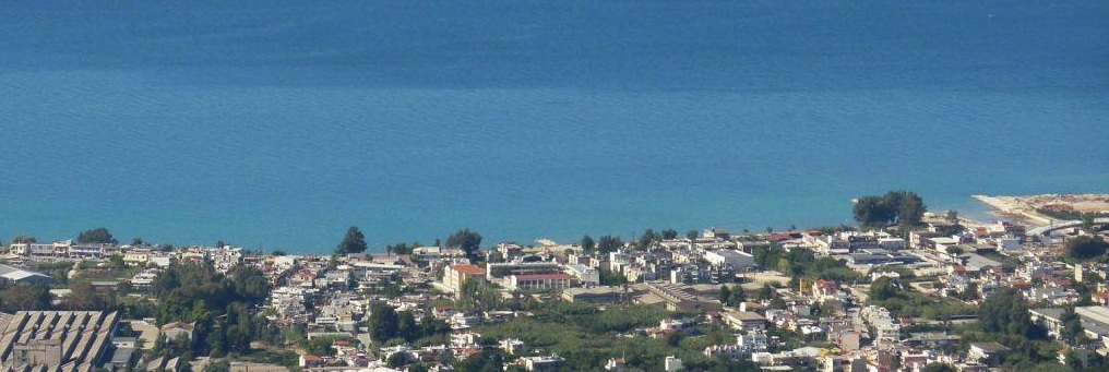 Ities, neighborhood of Patras, Achaia, Greece. View from Omplos Mt.